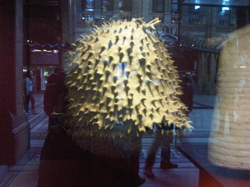 Wasp' nest at the Natural History Museum in London, UK: Polybia scutellaris from south-east Brazil.